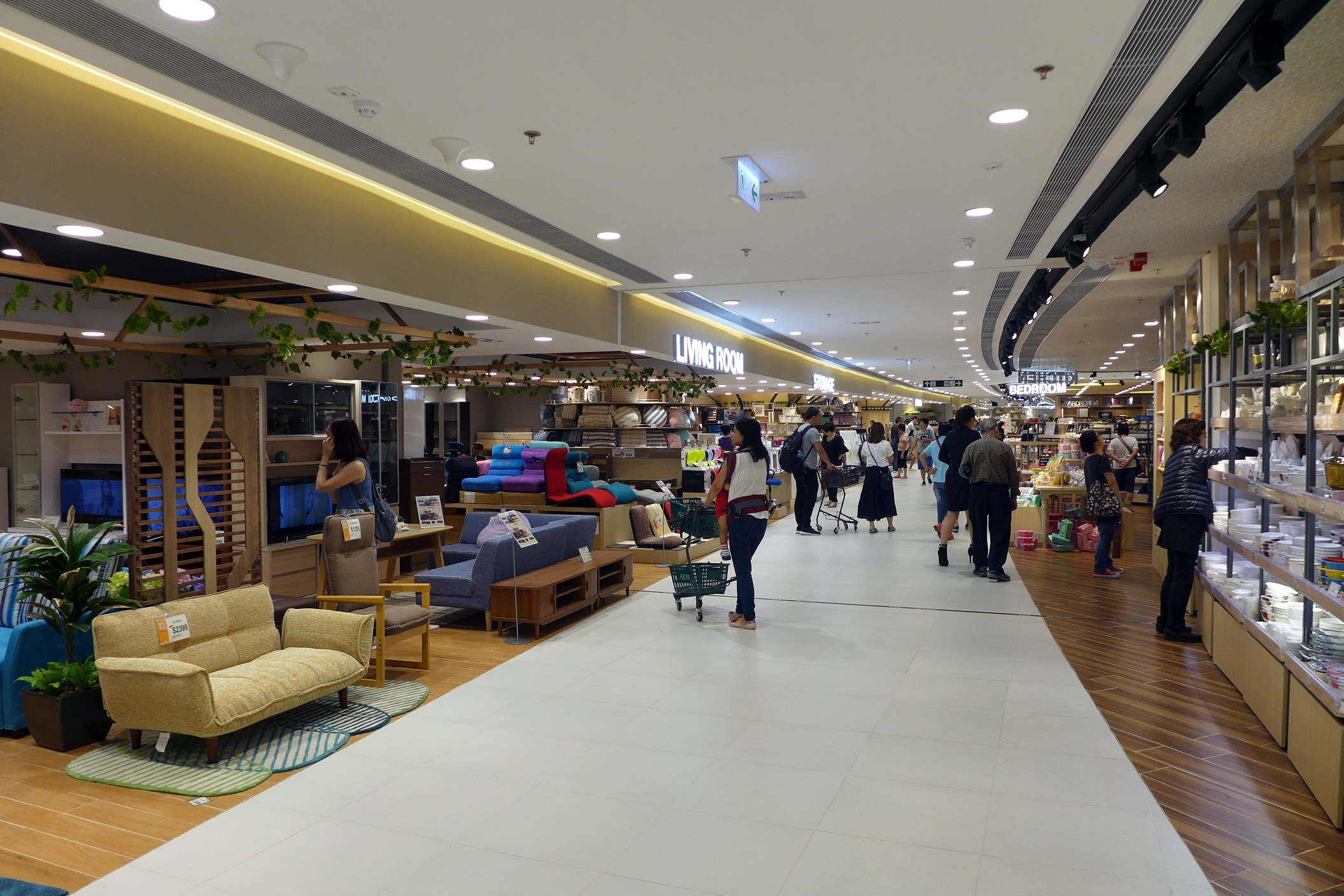 AEON Style Whampoa Interior